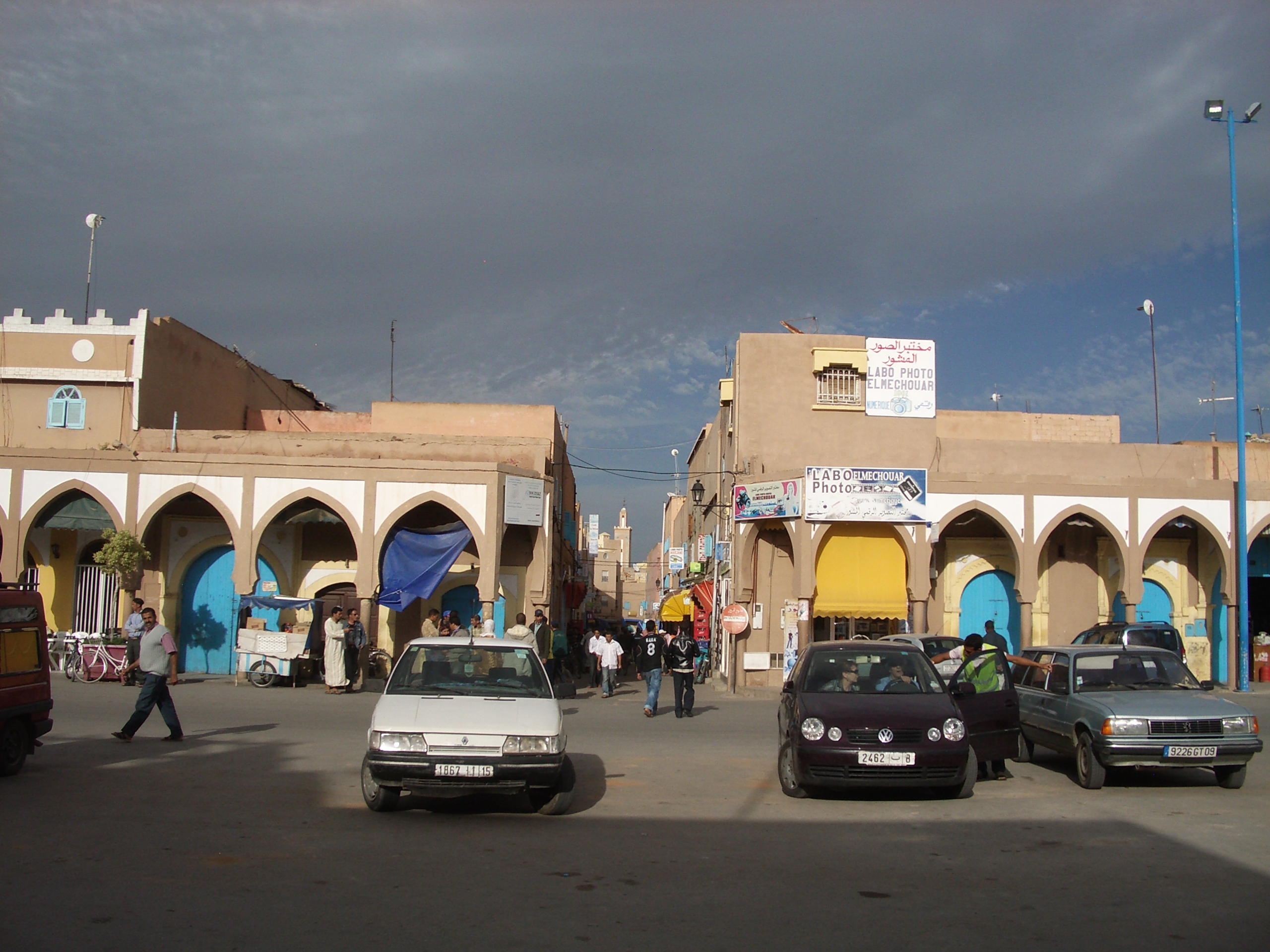 Tiznit (Marocco) - another side of the place